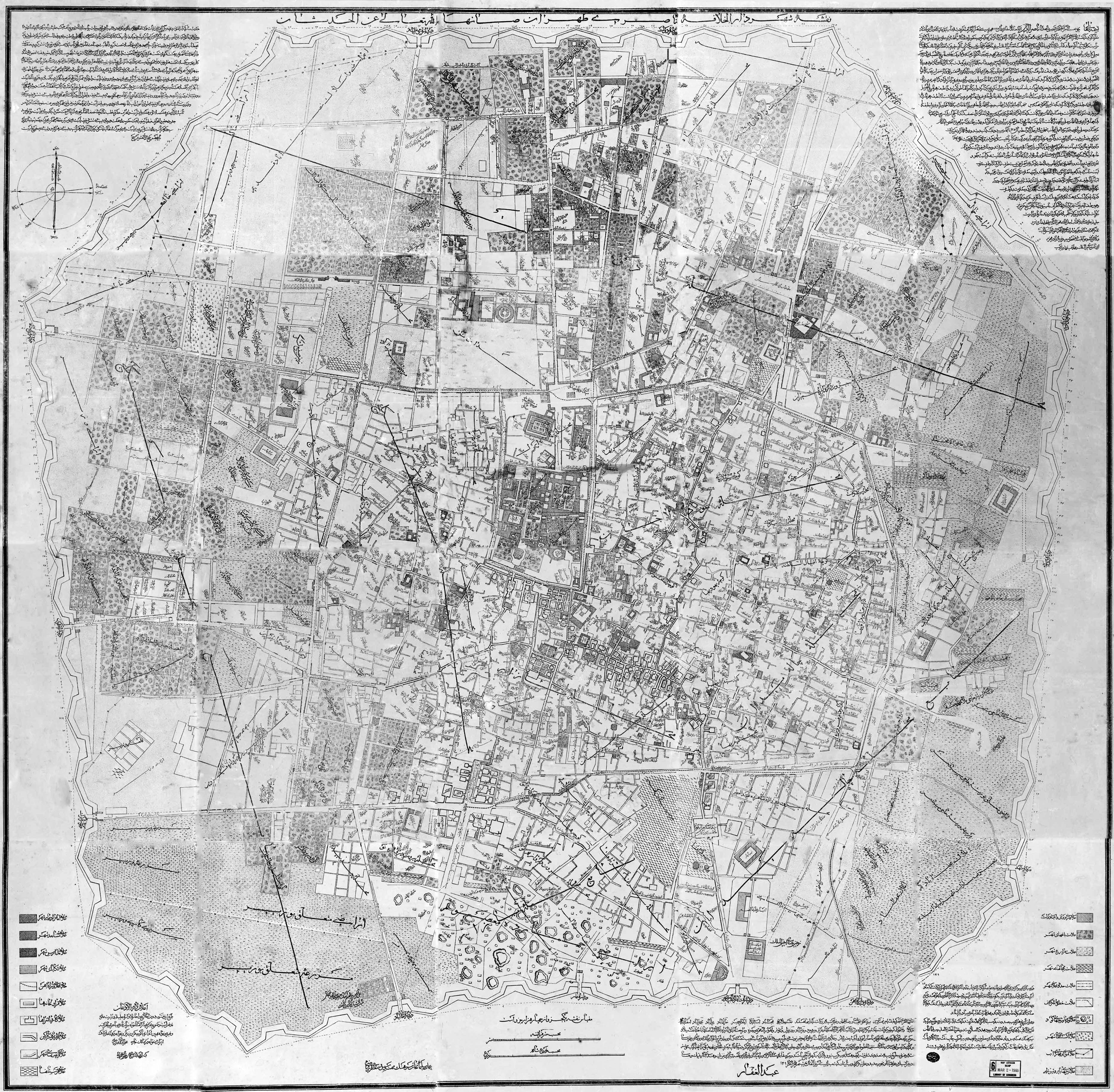 Forth Tehran map